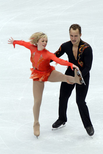 Caydee Denney and Jeremy Barrett at the 2010 Winter Olympics.